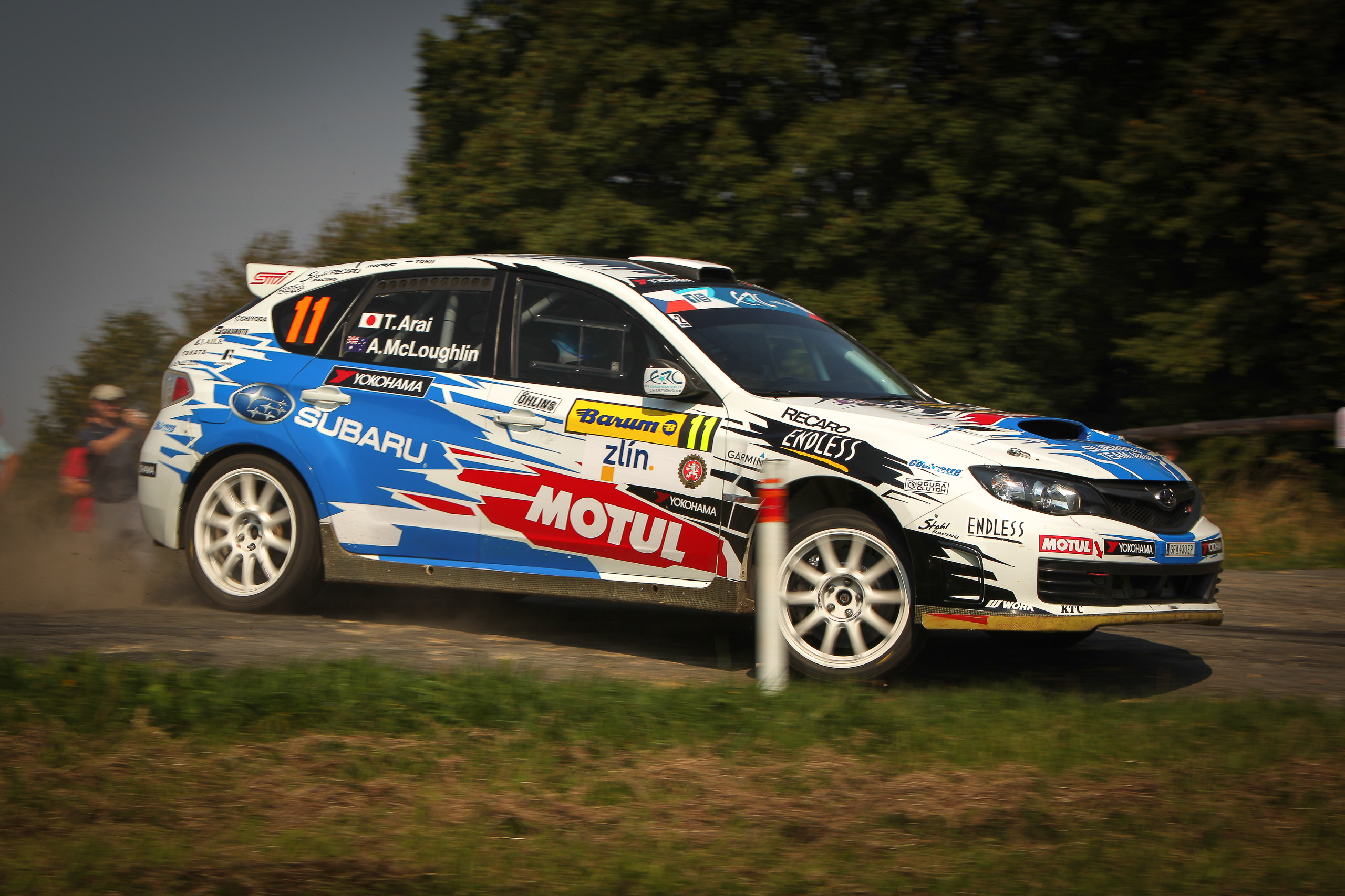 Toshihiro Arai, Anthony McLoughlin, Subaru Impreza STi R4